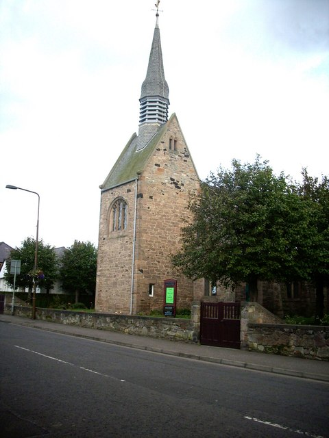 Chalmer's Memorial Church. The bell tower of the kirk situated on Edinburgh Road, Port Seton.